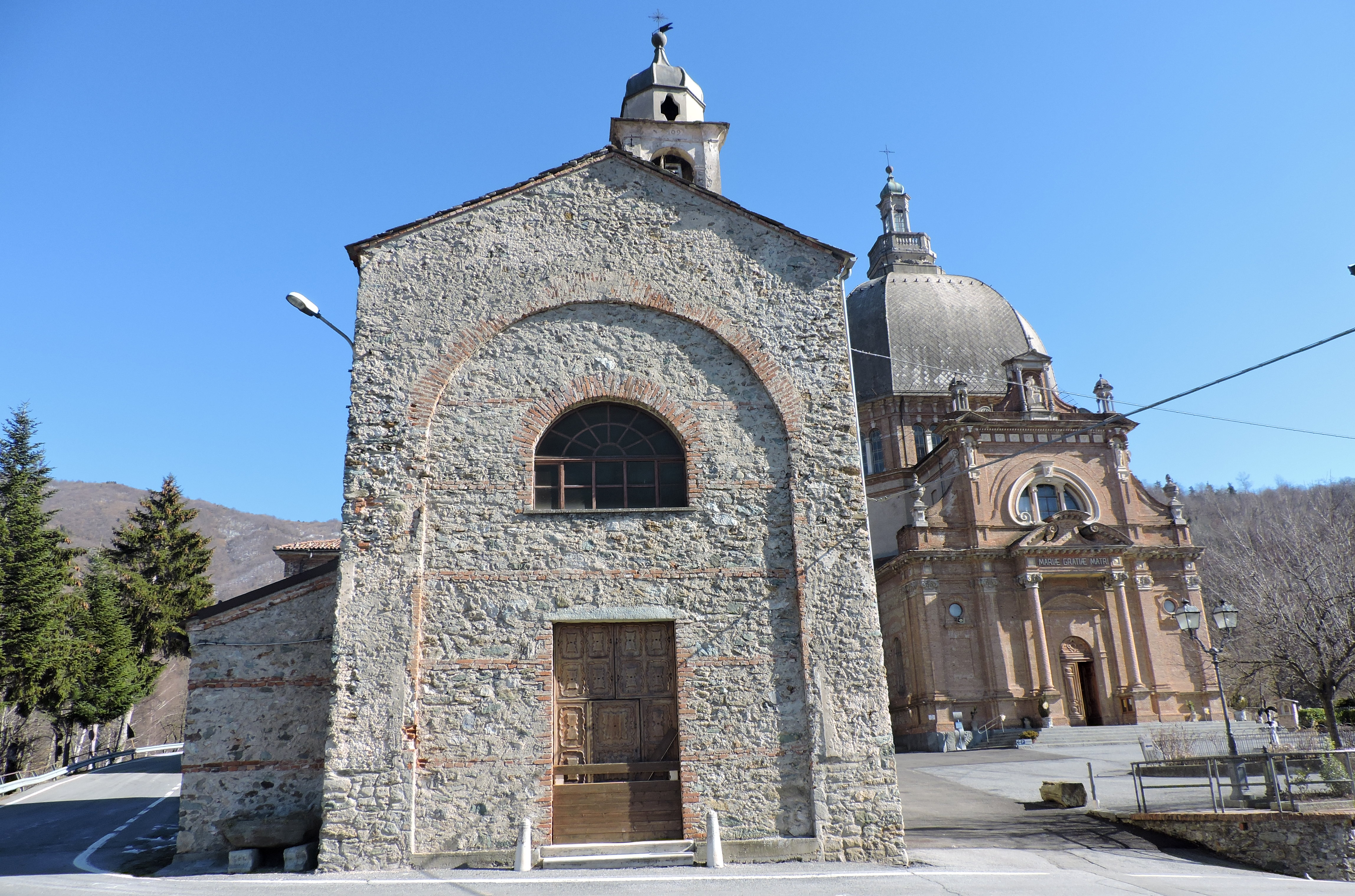 Santuario di Valsorda (Garessio, CN, Italy) - old and new church